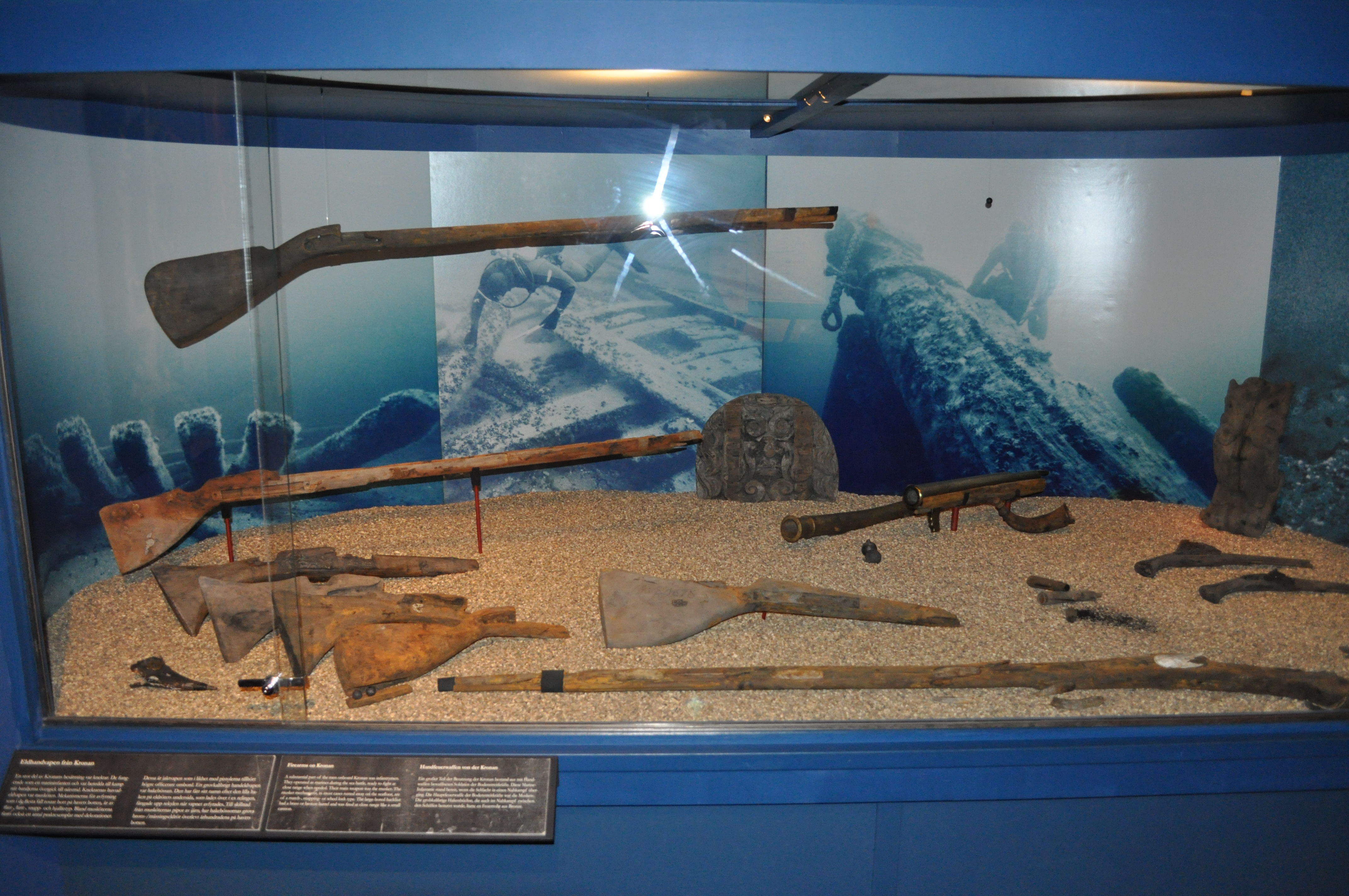 Handguns of the Swedish ship of the line Kronan at Kalmar museum.